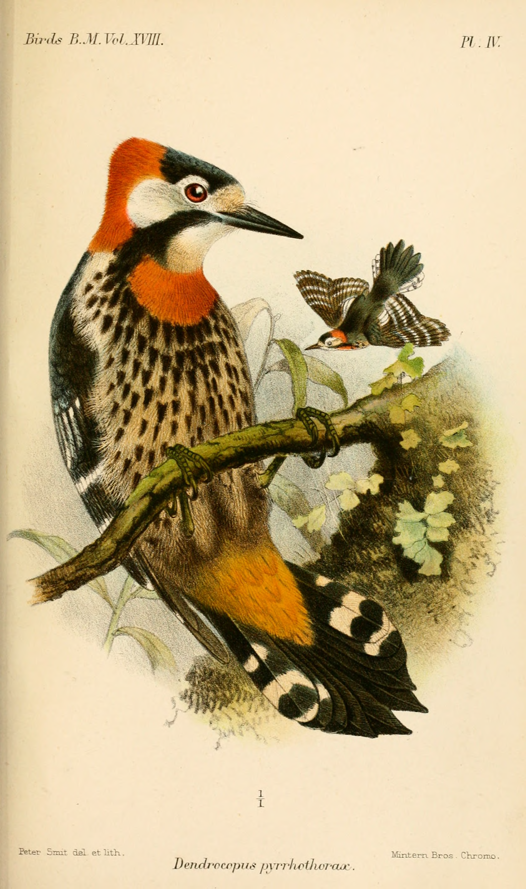 Dendrocopus pyrrhothorax (Hume) = Dendrocopos cathpharius pyrrhothorax (Hume, 1881)